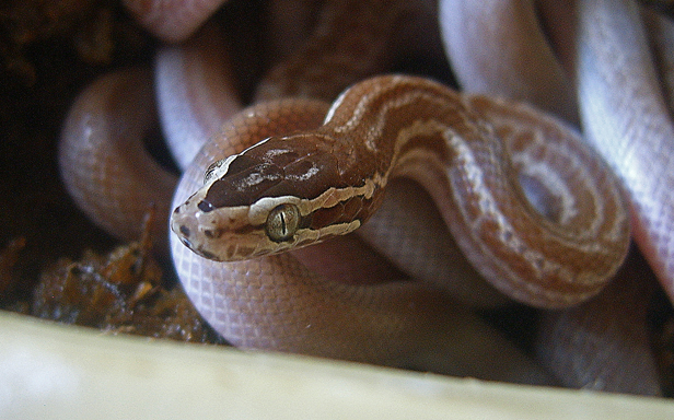 photo of a juvenile Cape house snake, Boaedon capensis